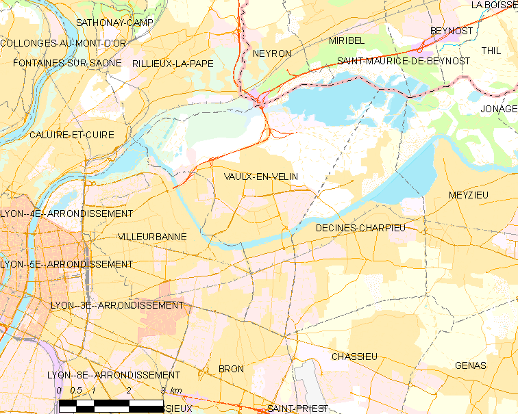 Map of French municipality